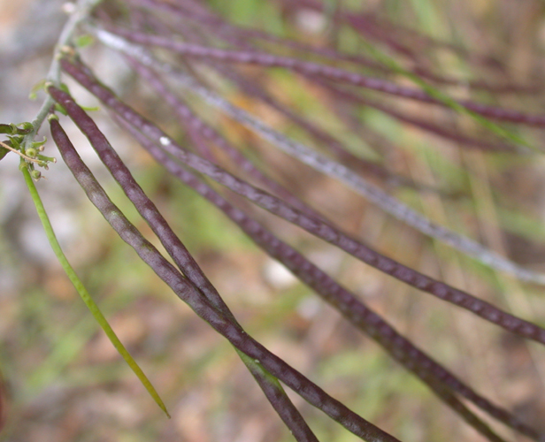 Arabis turrita L. (ארביס נאה), Nachal Kziv, Upper Galilee, Israel, May 17, 2006.